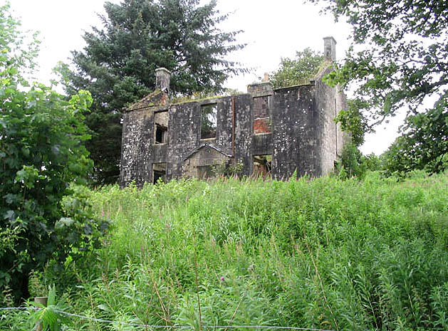 Ruined house at Riccarton Junction This is the ruined remains of the station master's house at Riccarton Junction. Riccarton Junction was a railway village and station in a remote location on the former North British Railway Line, known as the Waverley Route, that was closed in 1969. At one time there was a population of about 120 with a school, schoolmaster's house, a small post office and shop. (Source: Border Railway Rambles by Alasdair Wham).